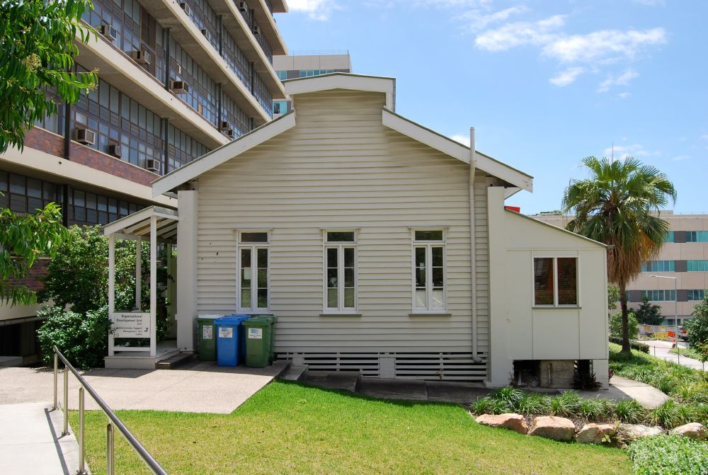 The Fever Ward of the Brisbane General Hospital Precinct